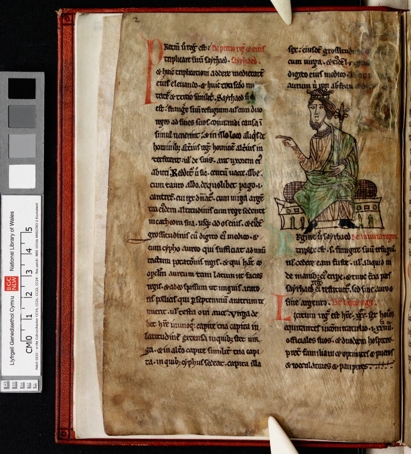 King Hywel Dda (Hywel the Good) enthroned. A Latin copy of the Laws of Hywel Dda, belongs to one of the National Library of Wales's foundation collections of manuscripts, the Peniarth Manuscripts.